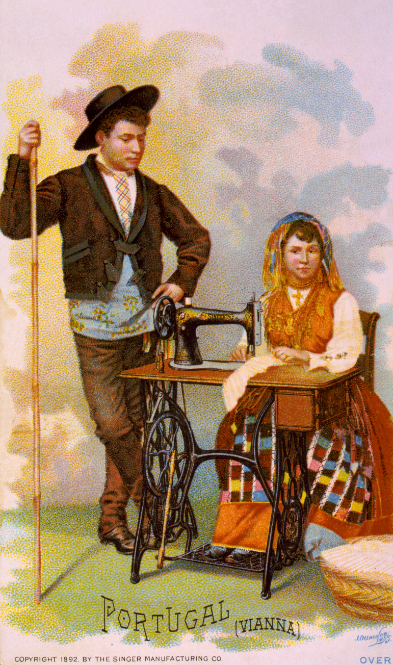 Singer sewing machine advertisement card, distributed at World Columbian Exposition, Chicago, 1893, showing two people from Portugal with Singer sewing machine.